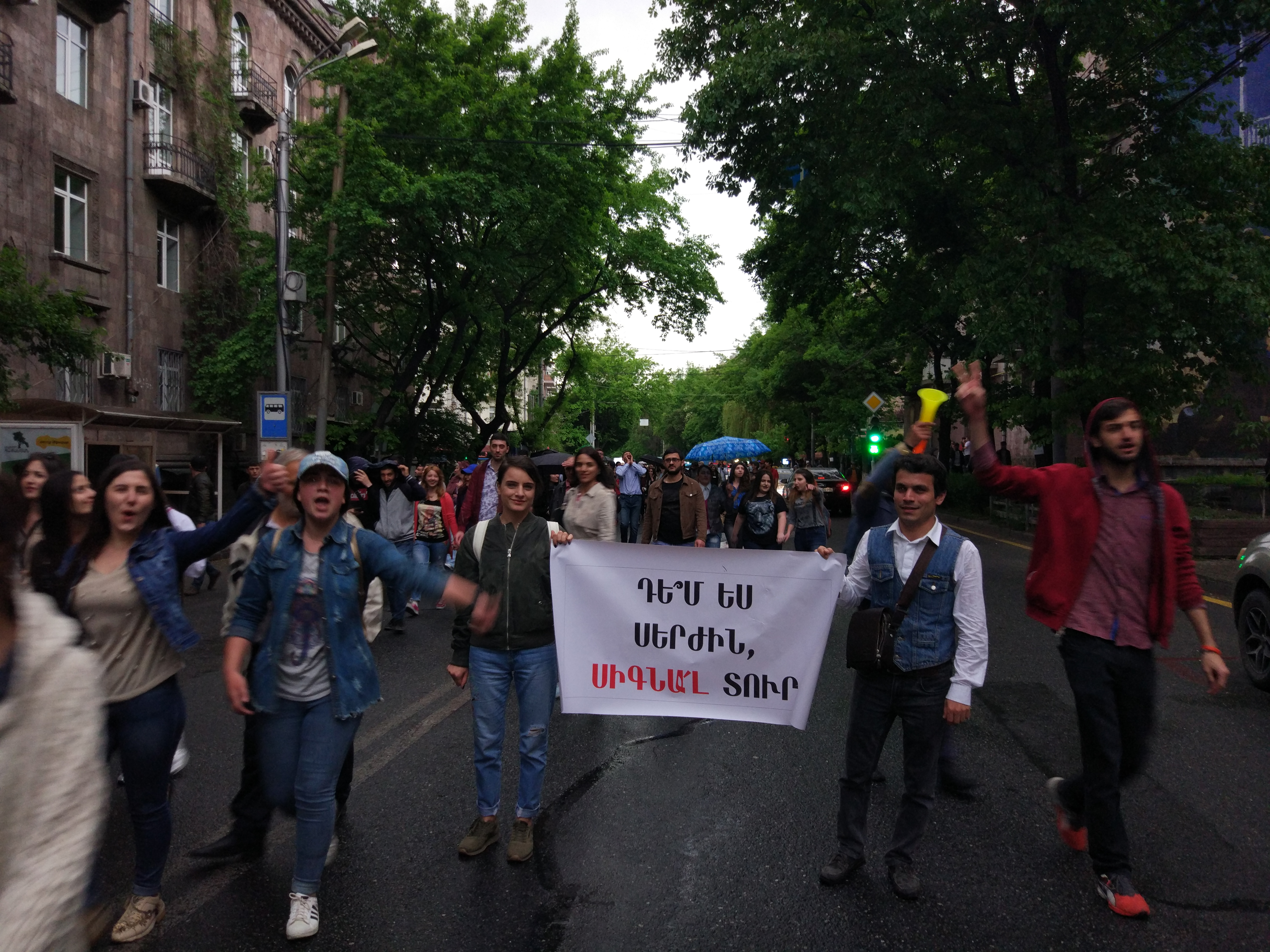 Protest demonstration, Yerevan